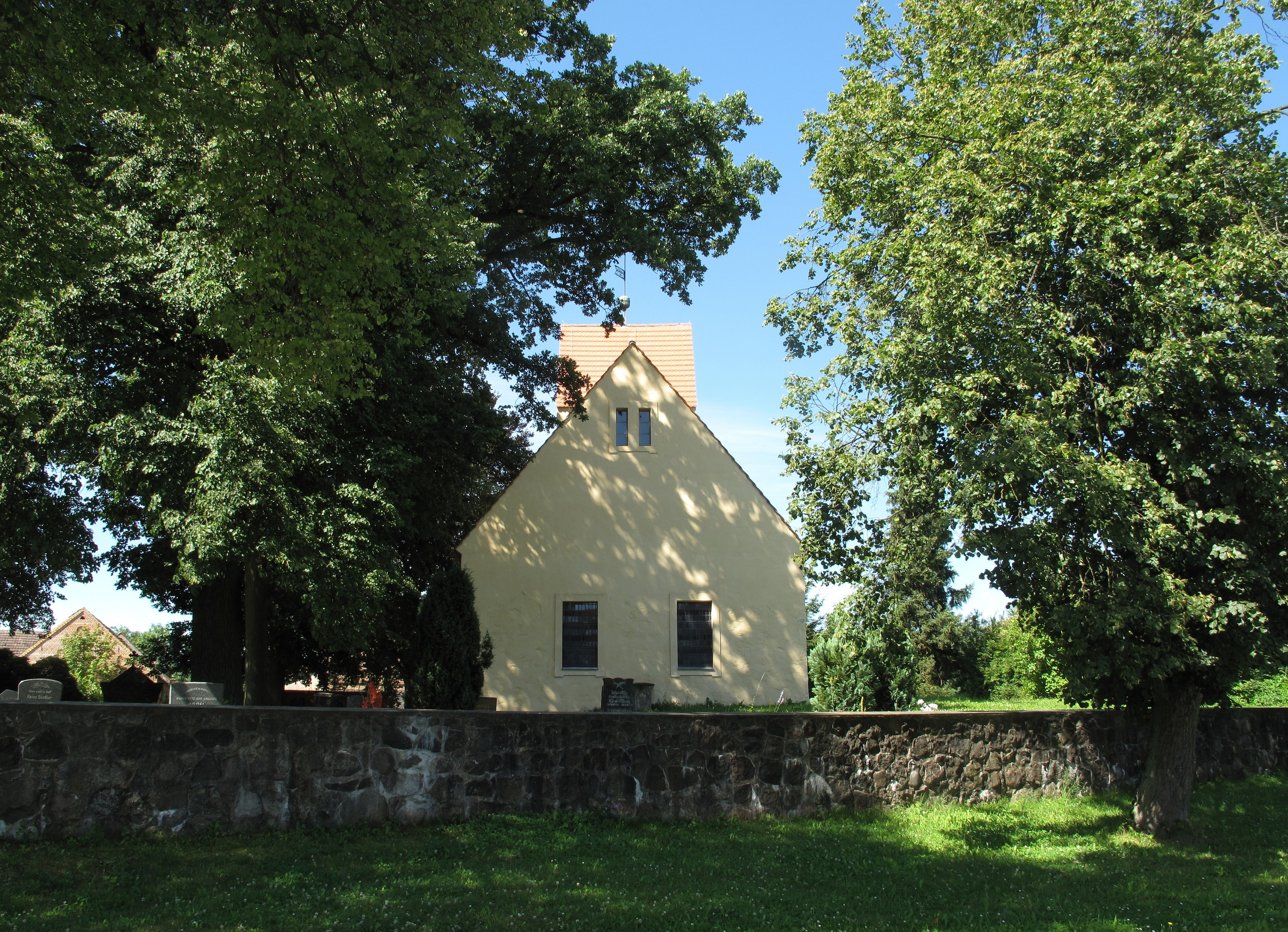 Listed village and Fieldstone church in Pritzhagen, a village of the municipality Oberbarnim in the District Märkisch-Oderland, Brandenburg, Germany. The church was built in the 14th/15th-century, but had been remodelled.